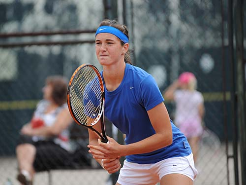 Gabriela Pantuckova - tennis player